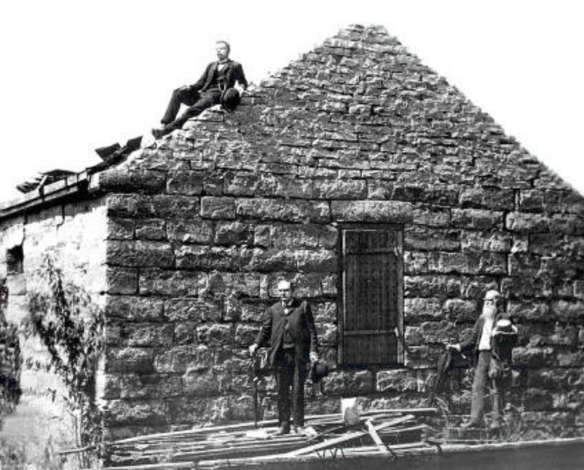 Liberty Jail in its deteriorating state in 1888. On the roof is Andrew Jenson, to the right is Edward Stevenson, to the left is Joseph S. Black.